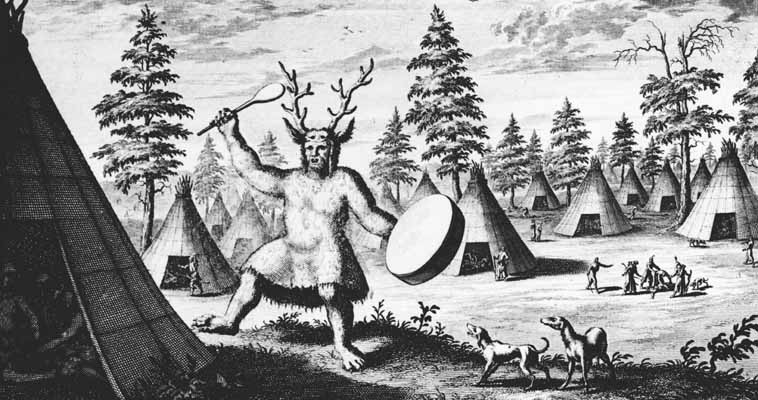 An illustration of a shaman in Siberia, produced by the Dutch explorer Nicolaes Witsen in the late 17th century. It is the earliest known pictorial depiction of a Siberian shaman to have appeared in Europe, where Witsen's account first popularised the term "shaman".